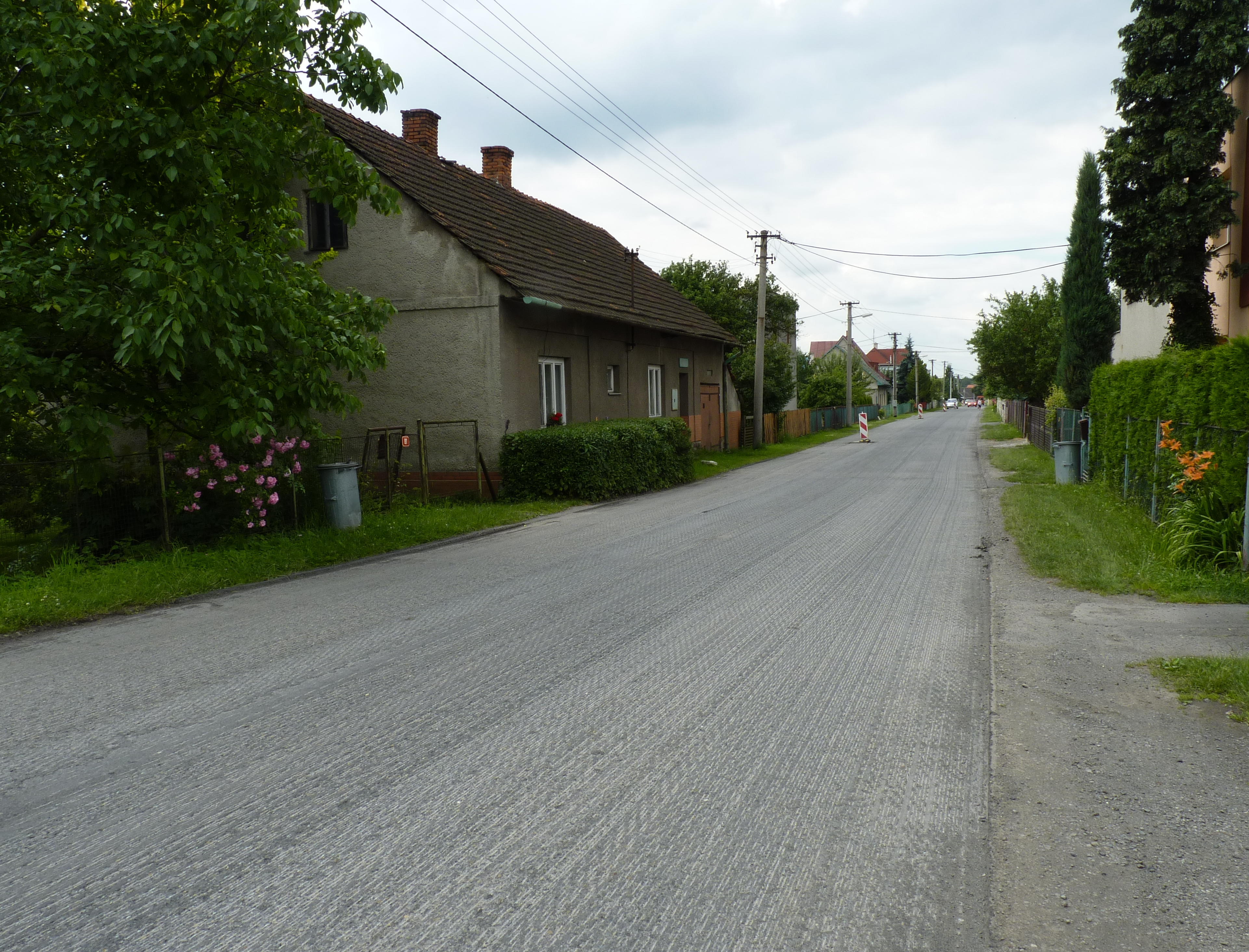 Staré Město. Frýdek-Místek District, Moravian-Silesian Region, Czech Republic